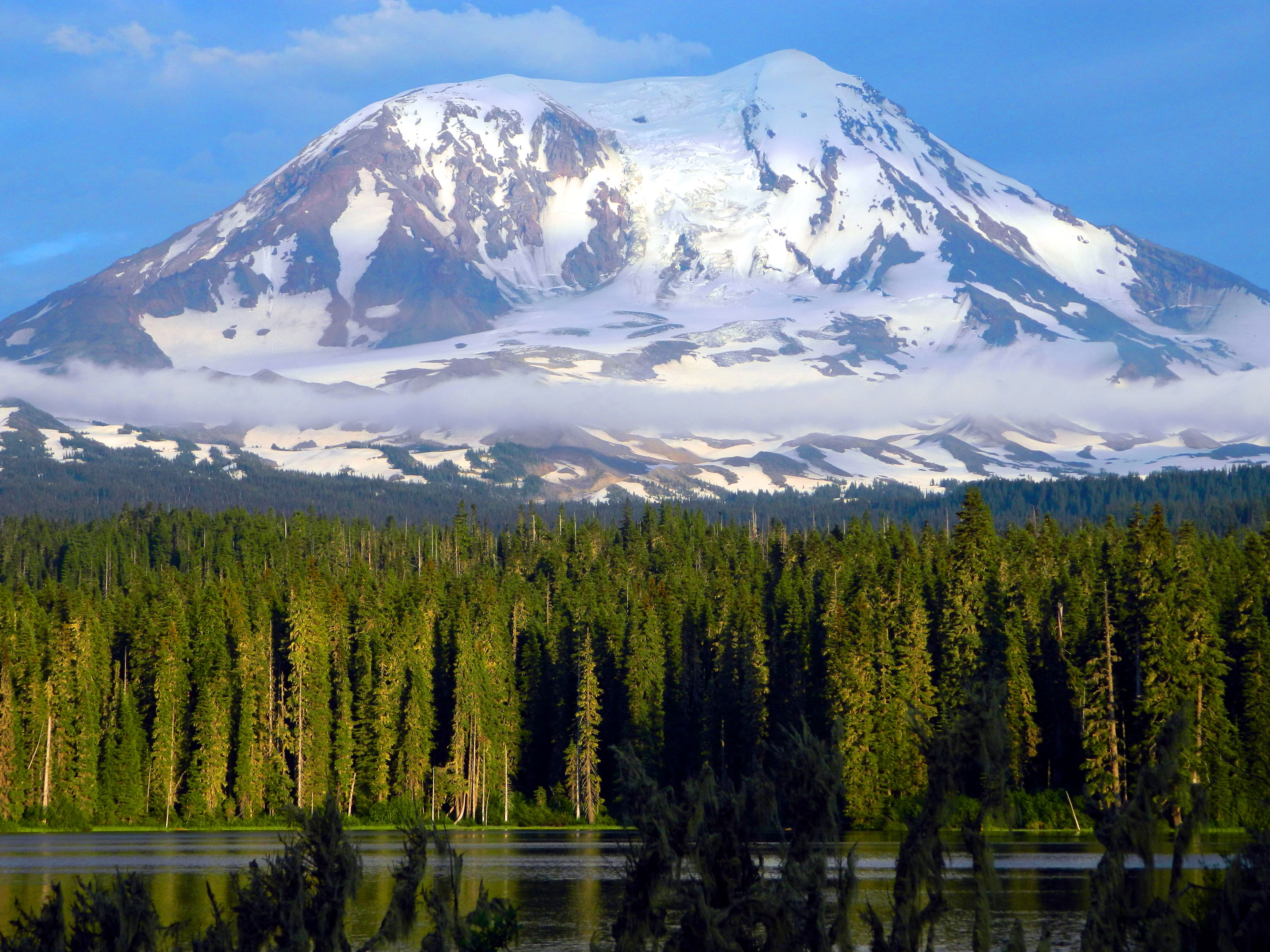 Takhlakh Lake view of Mount Adams from the day use area at Takhlakh Lake Campground. The lake offers postcard quality views across the lake of Mount Adams, towering at over 12,000 feet.